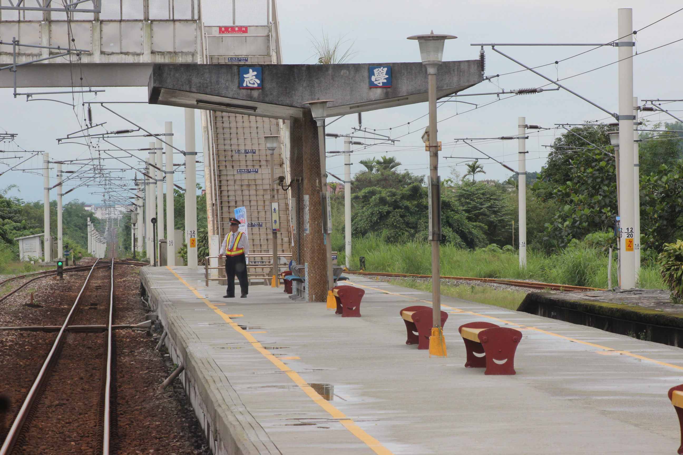 Taiwan Railway Administration JhihSyue Station platform 志學車站月台